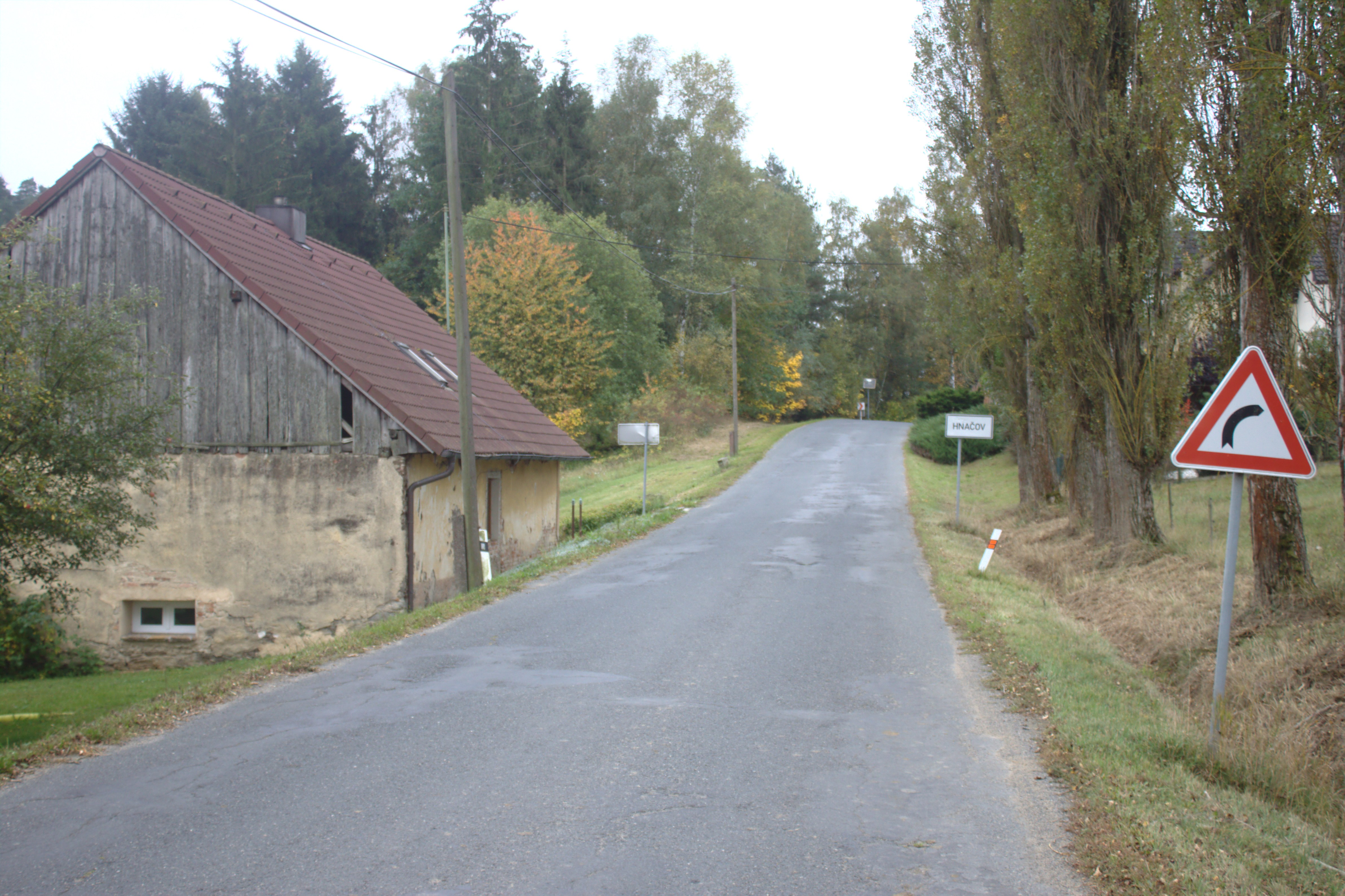 A road in the village of Hnačov, Plzeň Region, CZ